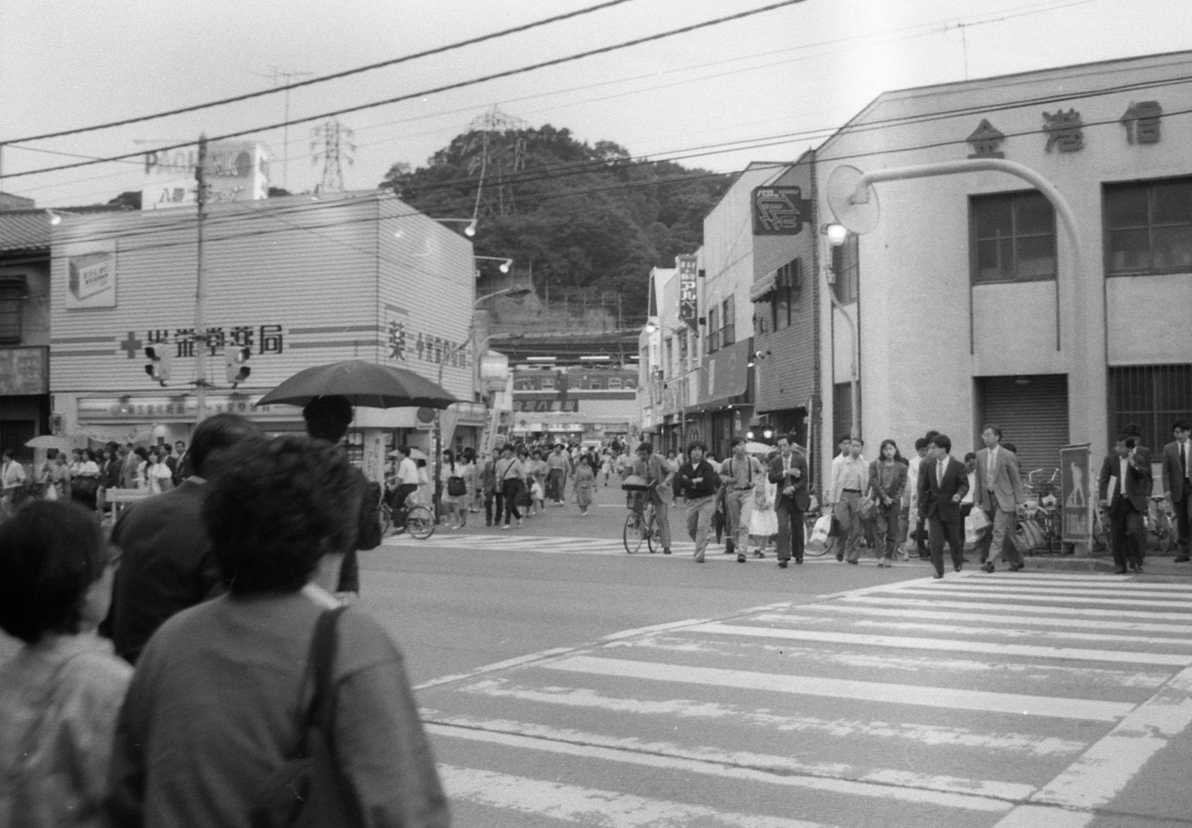 Kanazawa-Hakkei Station before construction of Seaside line station